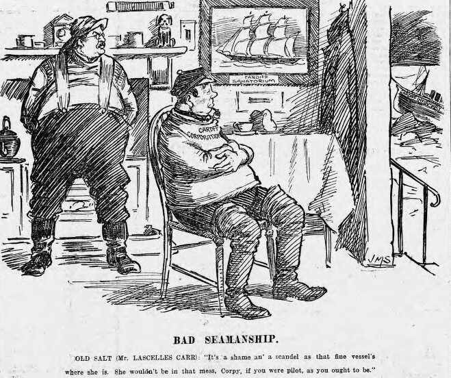 Henry Lascelles Carr, the editor of the Western Mail and Evening Express, bemoans the fate of a floundering ship named Cardiff Infirmary (Cardiff Sanatorium) to a pilot marked as a Cardiff Corporation.